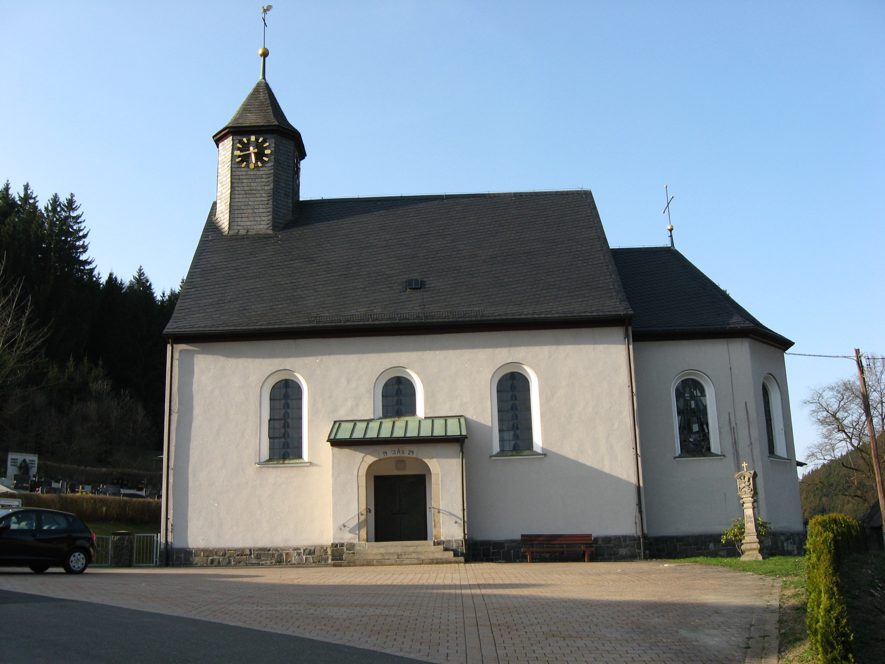 Church "Assumption of Mary" in Förtschendorf